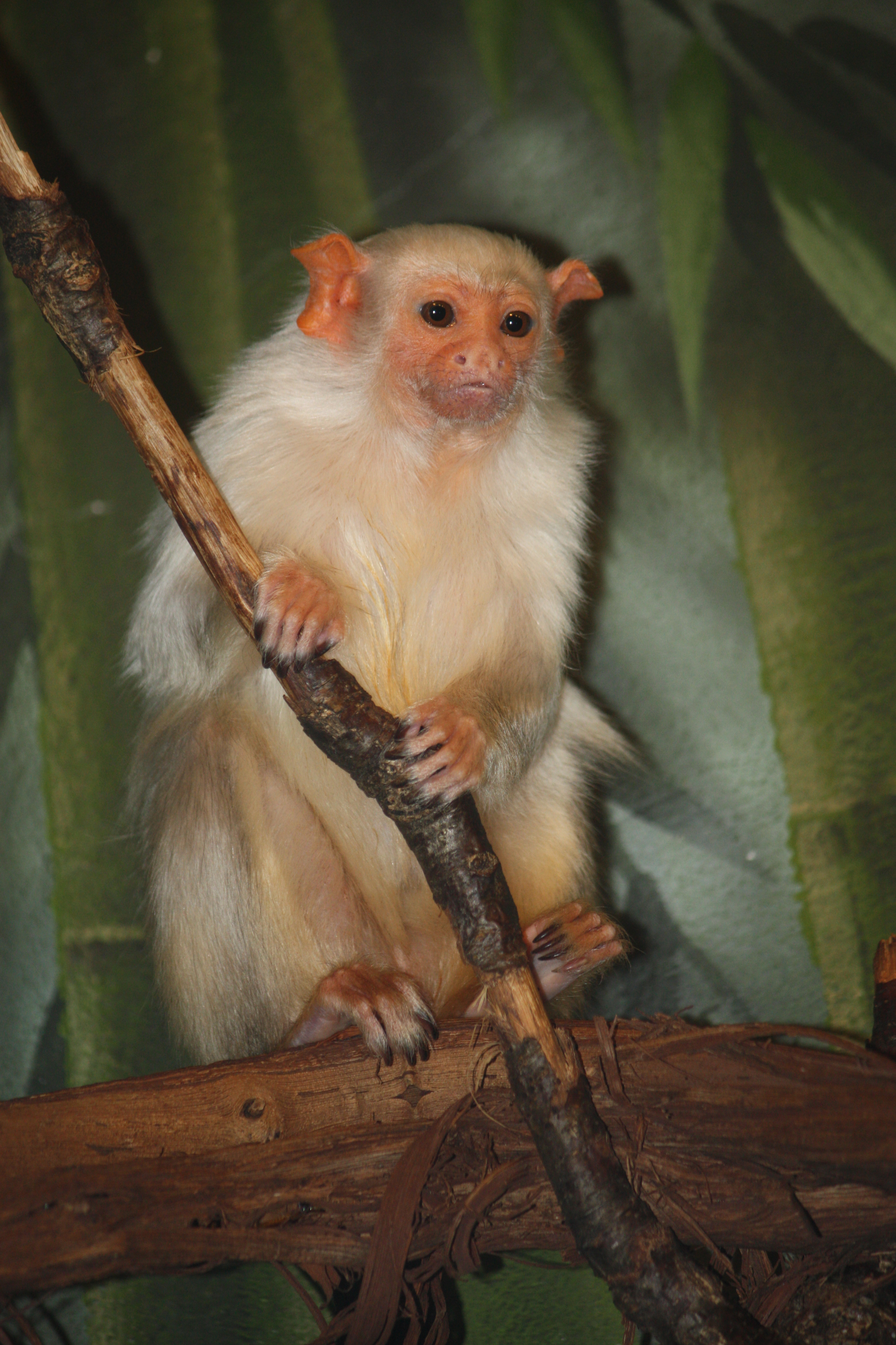 Silvery Marmoset (Callithrix argentata). Bronx Zoo, New York City.